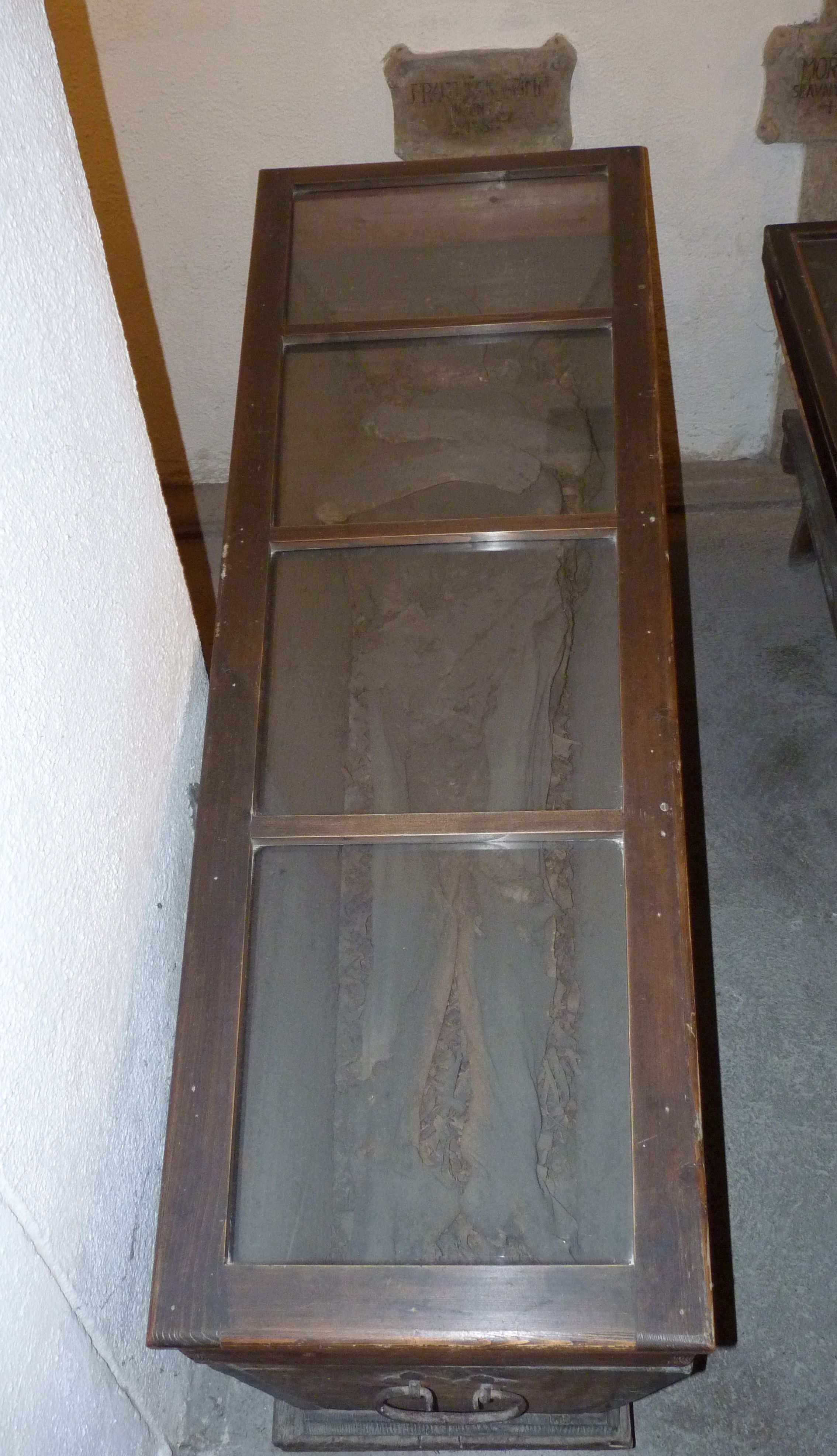 František Grimm. Capuchin Crypt in Brno, South Moravian Region, Czech Republic